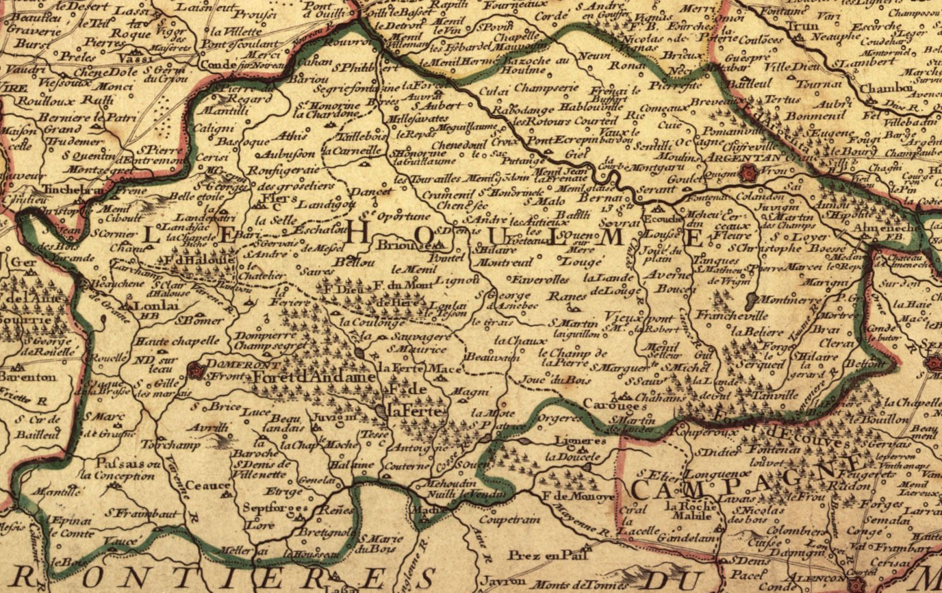 The Pays d'Houlme (Normandy)